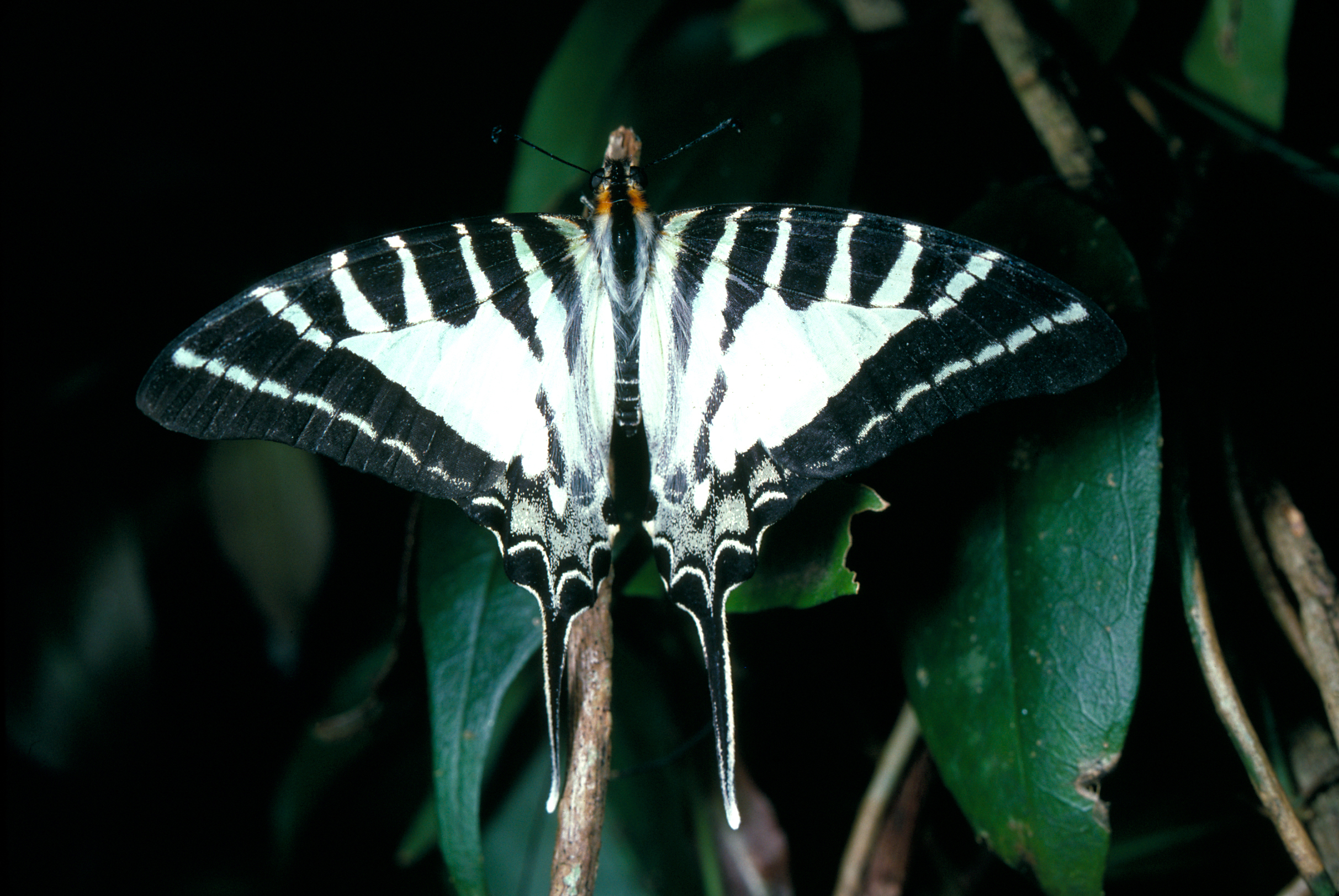 Five-barred swordtail